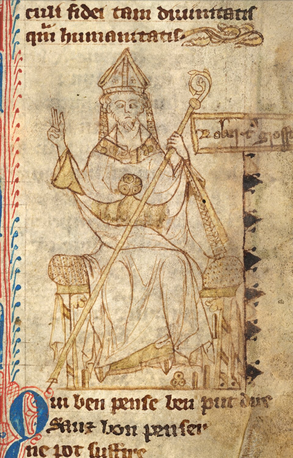 Caption: "Robert grosste..." Portrait of Robert Grosseteste, Bishop of Lincoln, eyes crossed, seated with miter and crozier, his right hand raised in blessing.